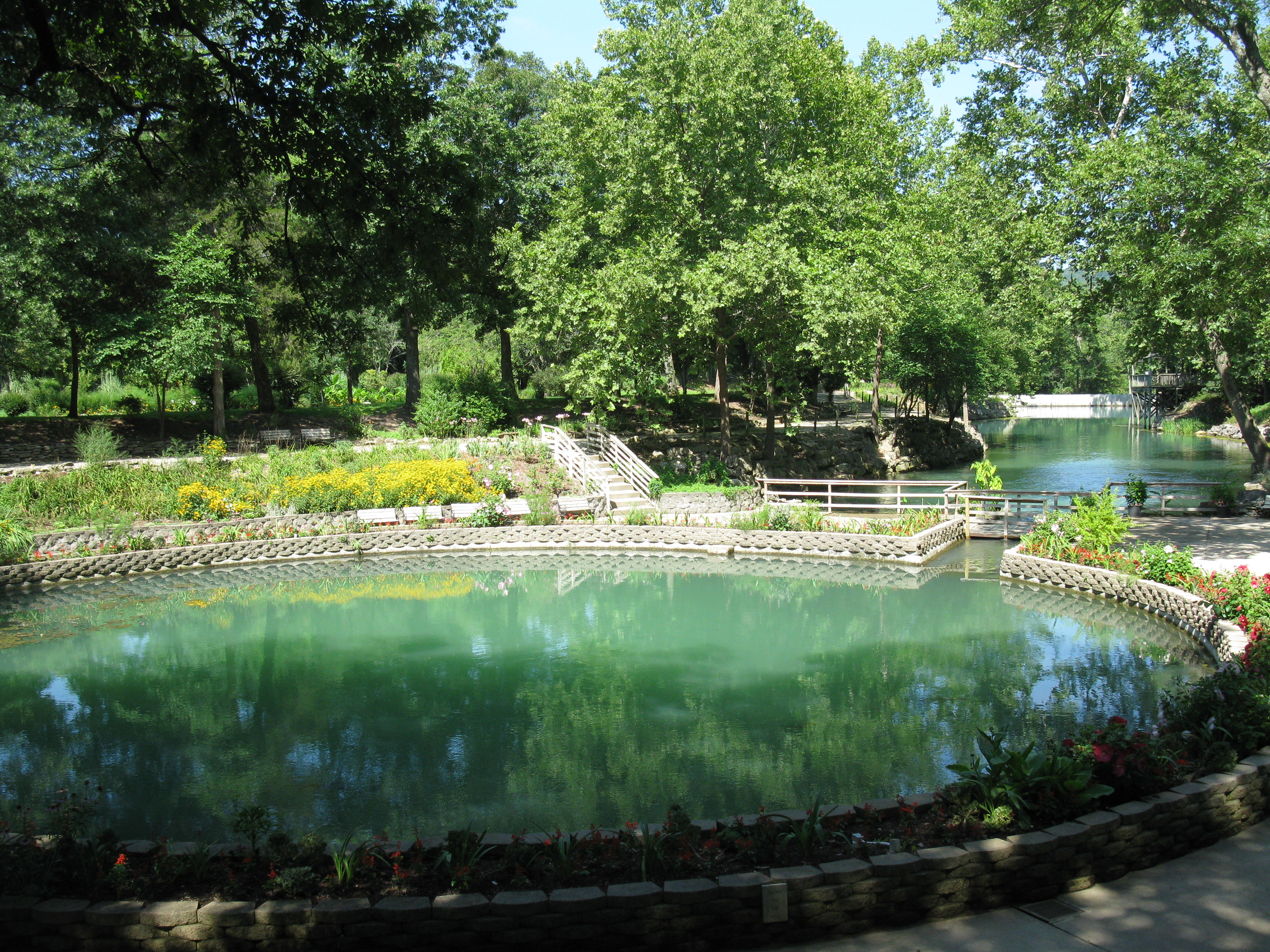 Blue Spring, west of Eureka Springs, Ark, a natural spring that pours 38 million US gallons of water daily into a trout-filled lagoon. It was a stopping point on the Trail of Tears for the Cherokee people, and is listed on the National Register of Historic Places.